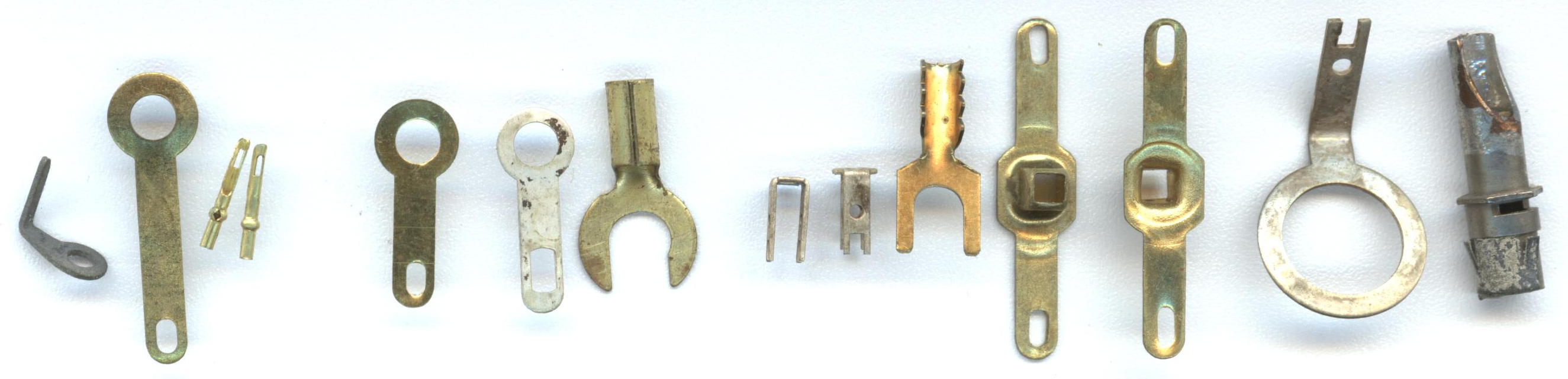 solder lugs and similar parts